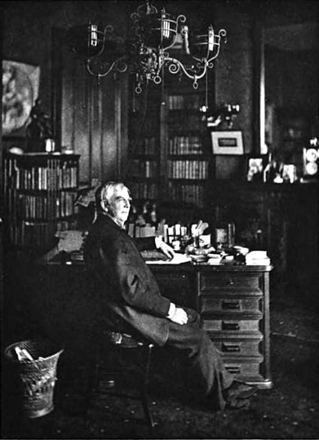 "Oliver Wendell Holmes in the study of his Boston home"